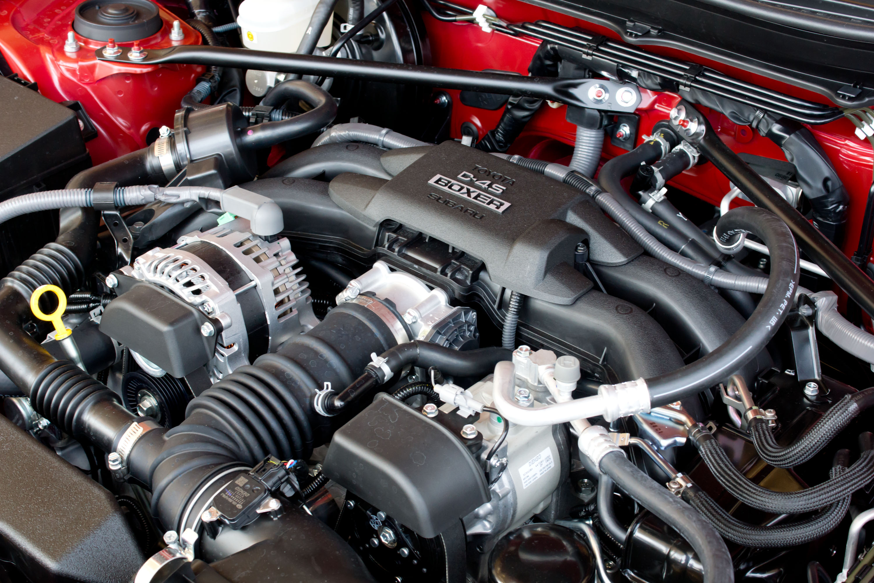 D-4S Boxer Engine of Toyota 86 (as known as Toyota FT-86, Toyota GT86, Sion FR-S). GT grade.